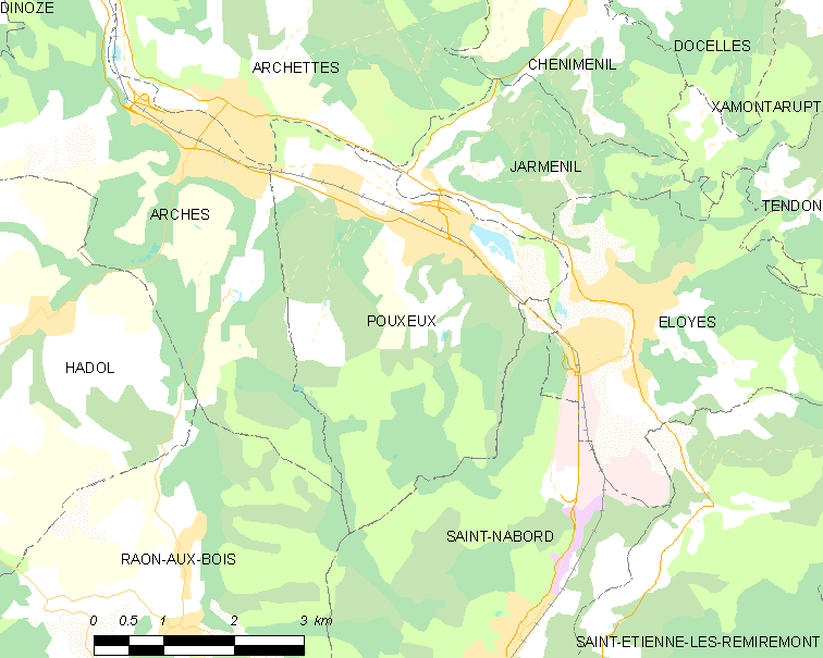 Map of French municipality Pouxeux